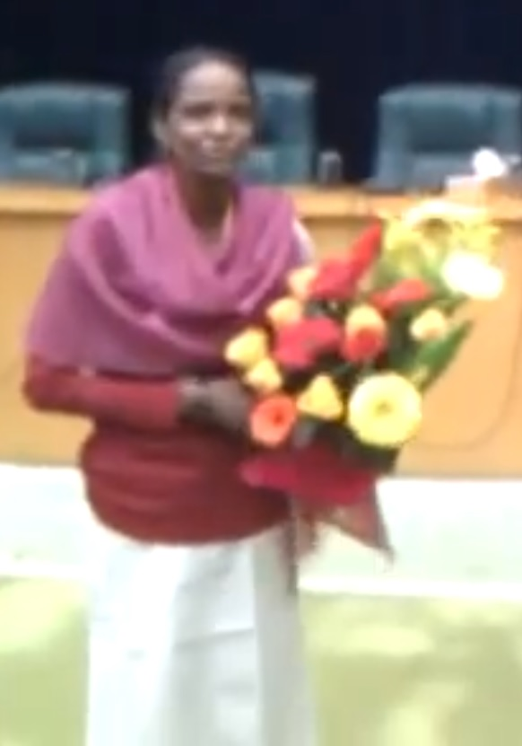 Honoring Dr. Gada Kadoda after KMCA2012 huge Success Workshop on Knowledge Management Capacity in Africa:Harnessing tools for development and innovation Held on Khartoum, Sudan, 4-7 January, 2012. Hosted by Garden City College for Science and Technology and the University of Khartoum. In Collaboration with the International Network on Appropriate Technology. The idea behind this group is to disseminate the concept of Knowledge Management (KM) and to discuss the effective implementation of KM initiatives in Africa (Developing Countries), in addition to share the preparation activities for the workshop." Help us caption & translate this video!